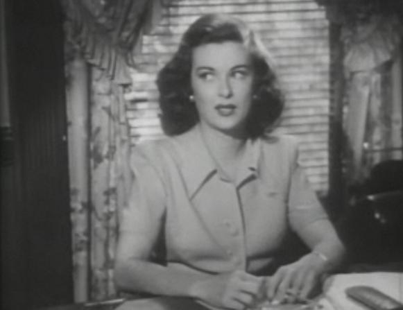 Screenshot of Joan Bennett from the film Colonel Effingham's Raid